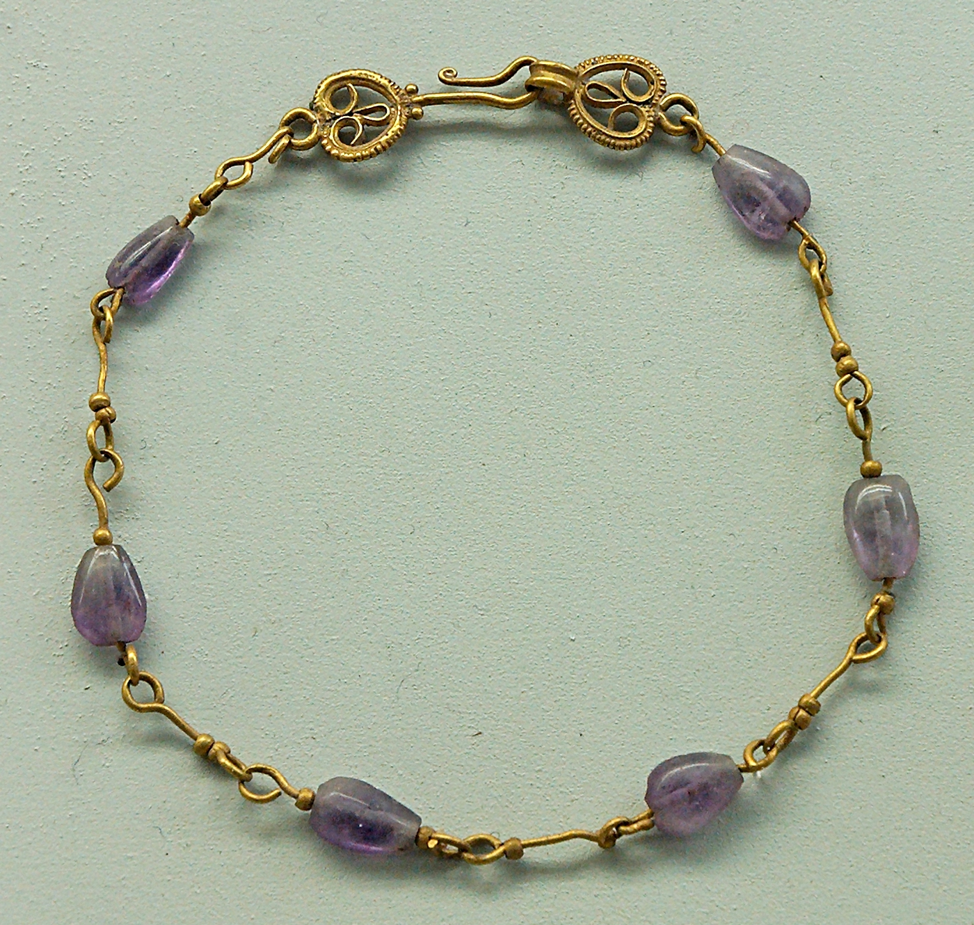 Bracelet. Byzantine artwork. From the Roman Forum.